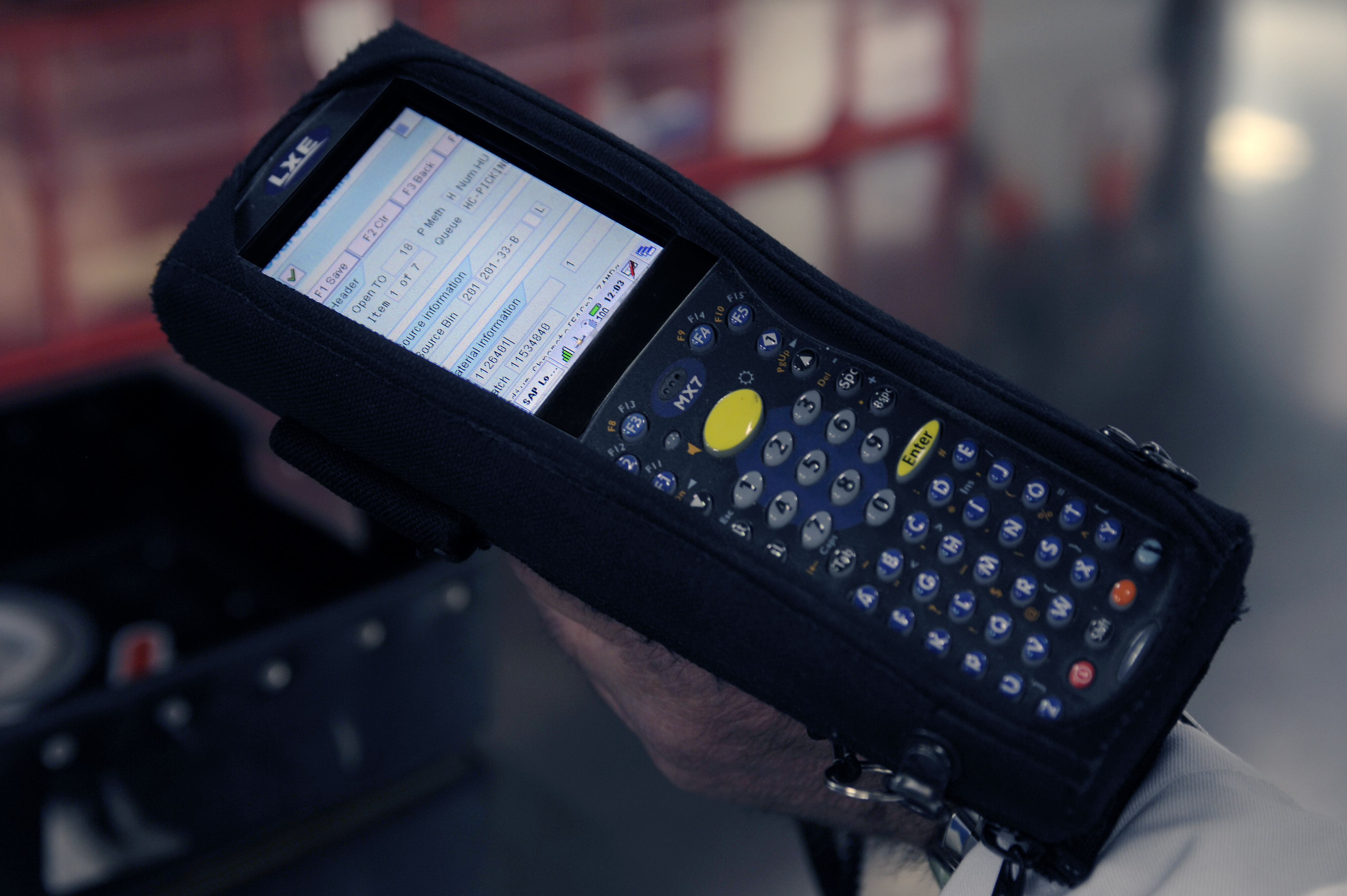 Control guns are use to aid preparation of scan orders of radioactive materials at a radio-pharmaceutical manufacturer at Amersham, Bucks, United Kingdom. 15 December 2011